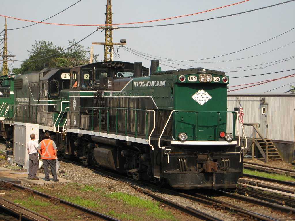 New York & Atlantic Railway EMD MP15AC loco 159 hauling freight through the Jamaica Railroad Station